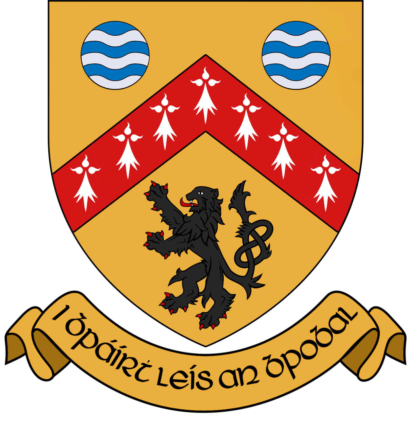 The coat of arms of County Laois in the Republic of Ireland, as derived from the official blazon: Or on a chevron gules between in chief two fountains and in base a lion rampant sable seven ermine spots argent, with the motto: I bpáirt leis an bpobal (In partnership with the community).